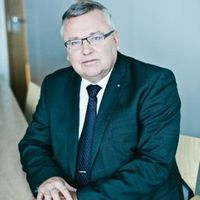 Founder of Hansab